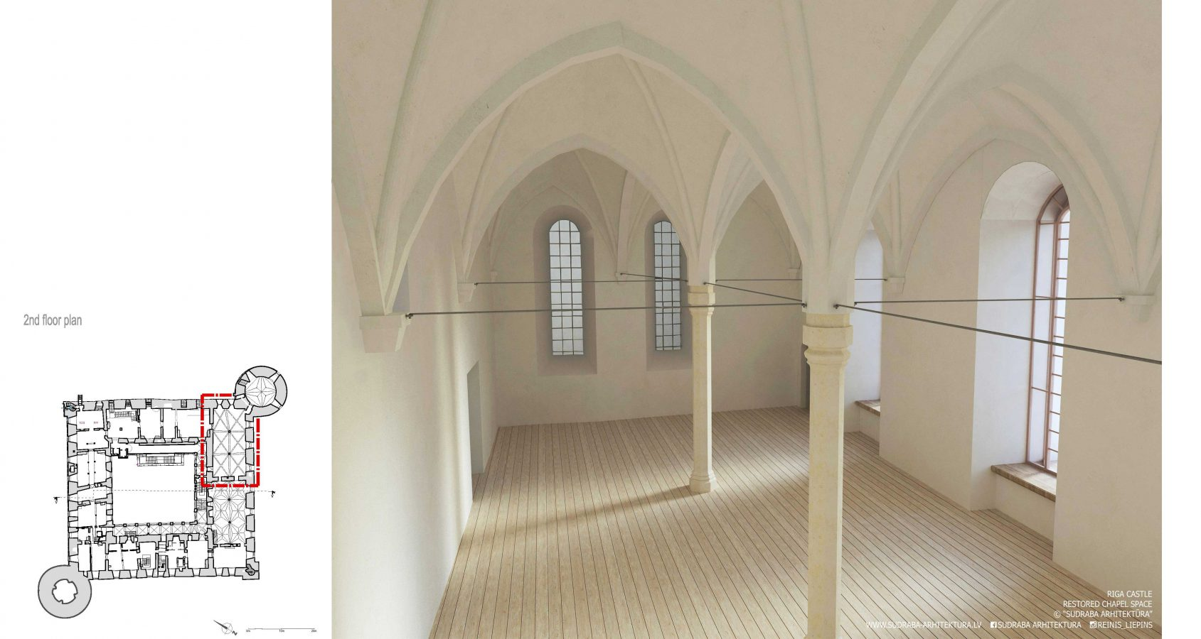 3D visualisation of eventual restoration of 15th century castellum in Riga castle.